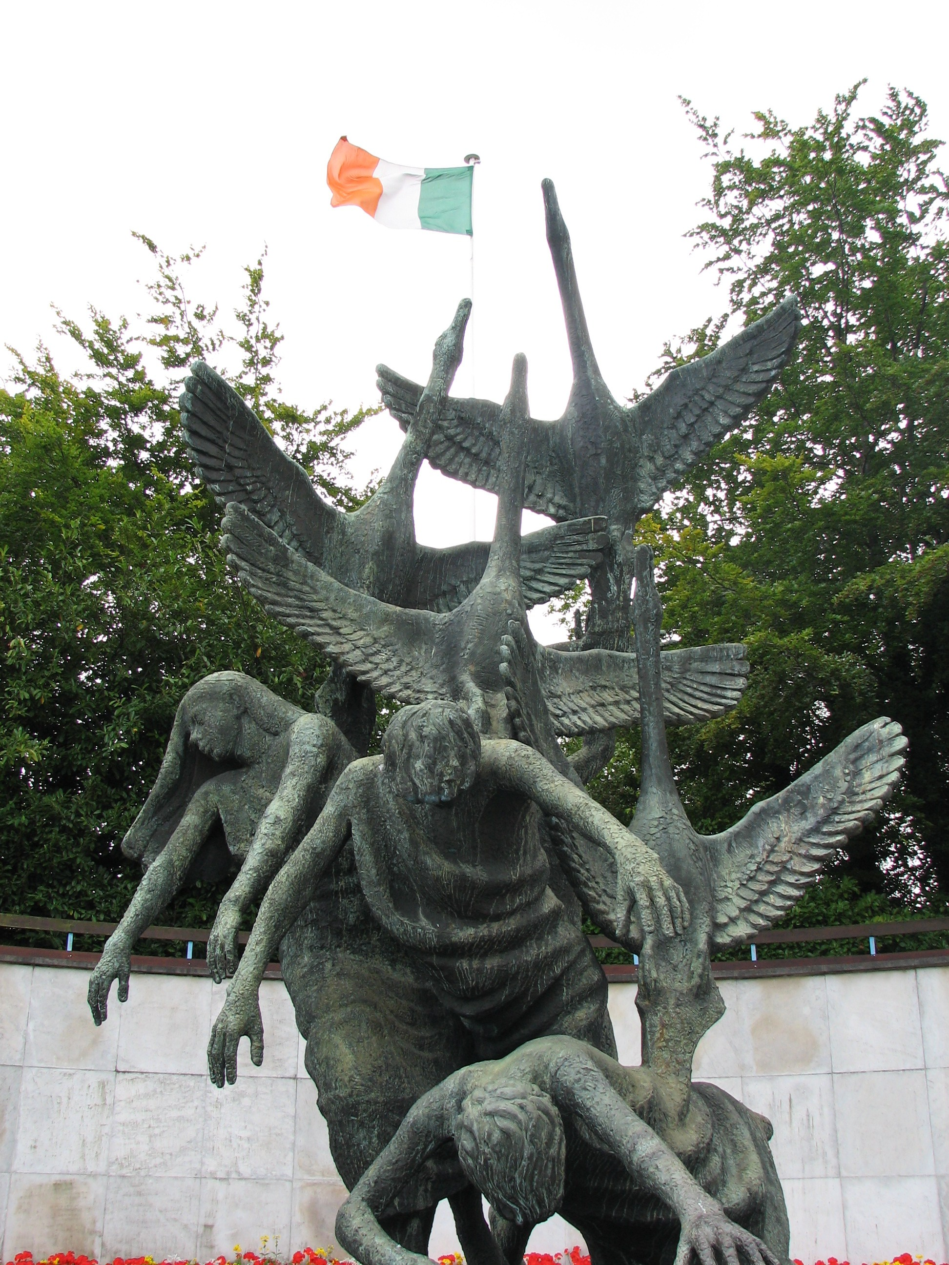 The Garden of Remembrance was opened in 1966, to mark the anniversary of the Rising. The Garden is dedicated to all those who gave their lives in the fight for Irelands Freedom.